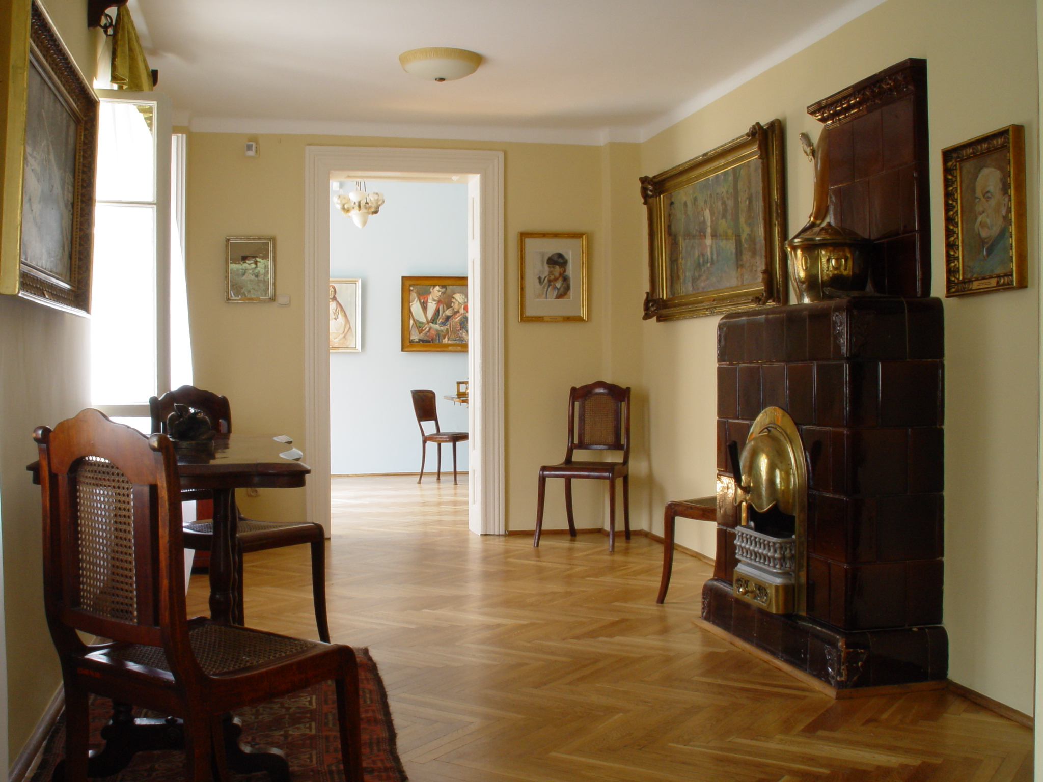 Interior of Julian Fałat's Villa and muzeum dedicated to him in Bystra Śląska